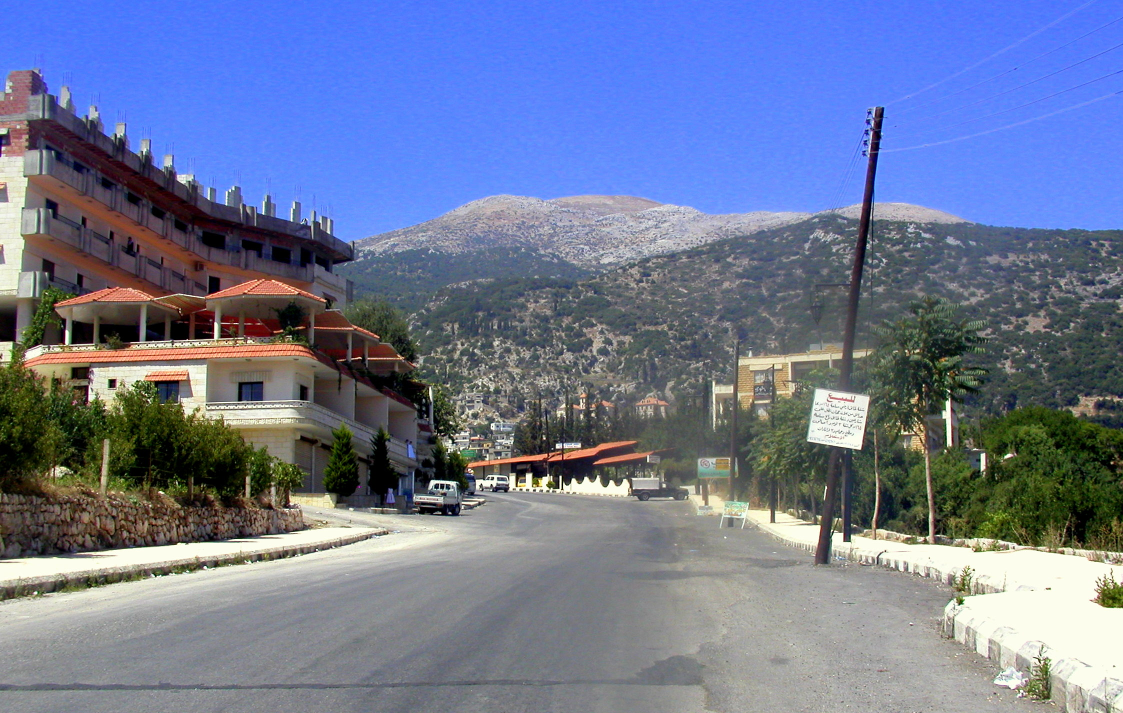 Mount Aqraa (Mount Casius) overlooking the town of Kasab, in Latakia Governorate, Syria